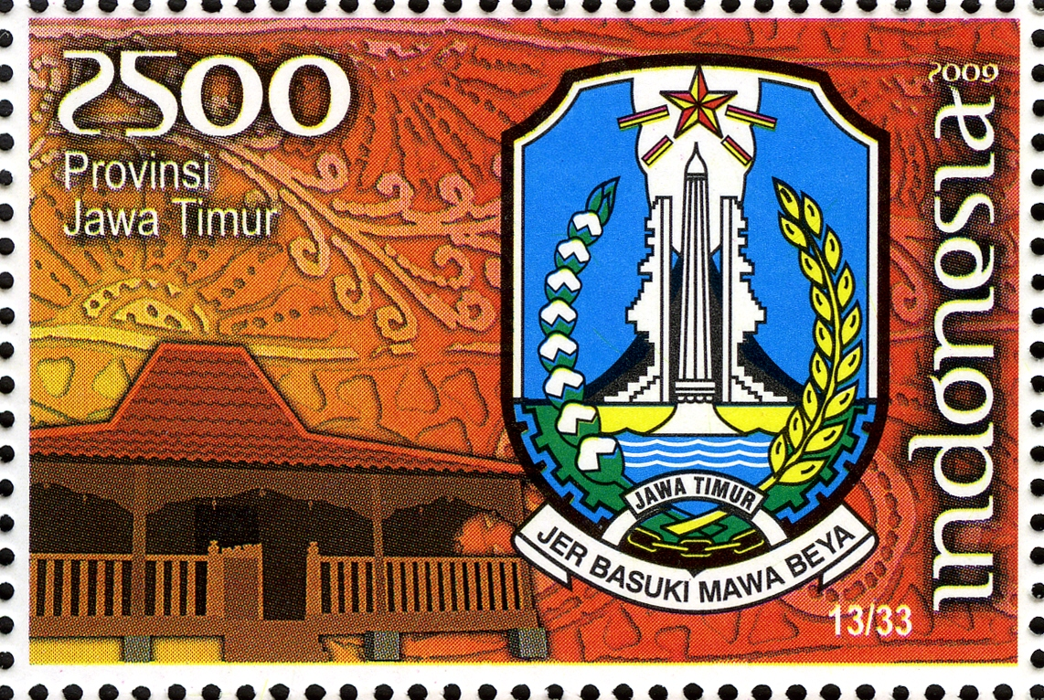 Stamps of Indonesia